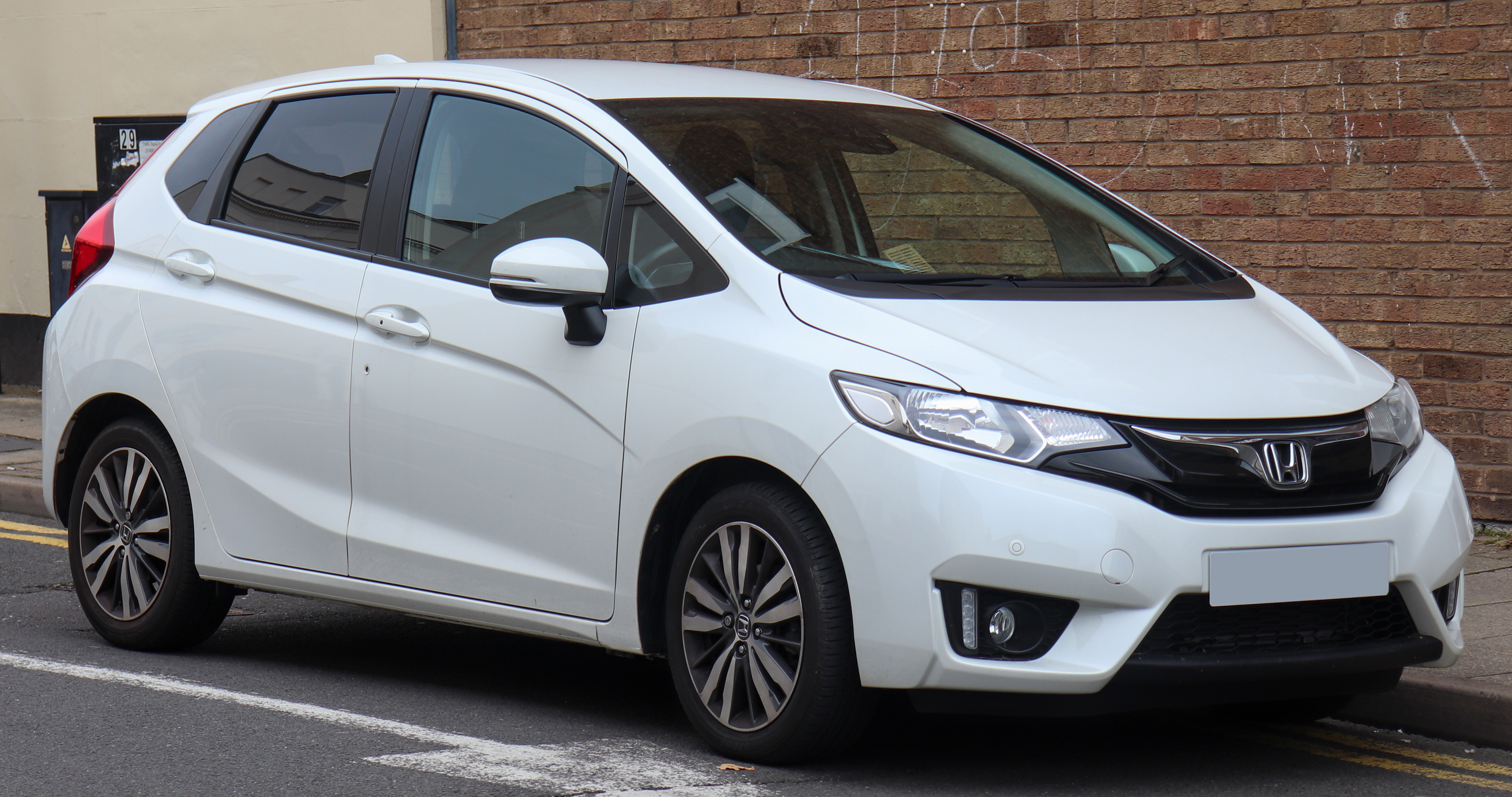 2017 Honda Jazz EX Navi i-VTEC CVT 1.3 Front Taken in Leamington Spa